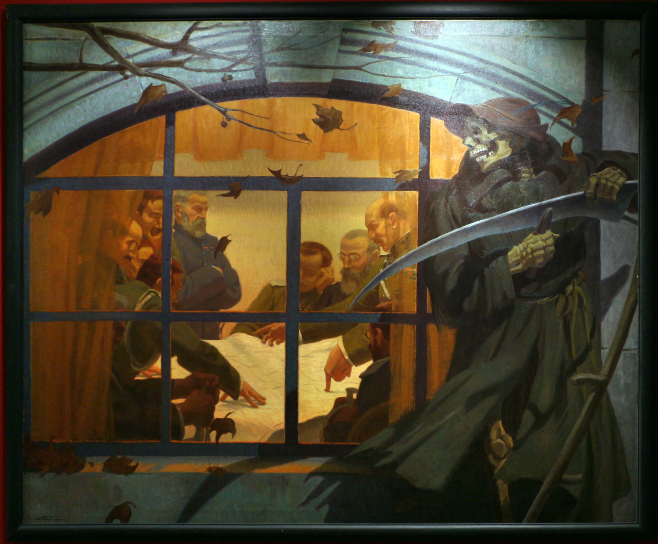 Exhibition at Buonconsiglio Castle